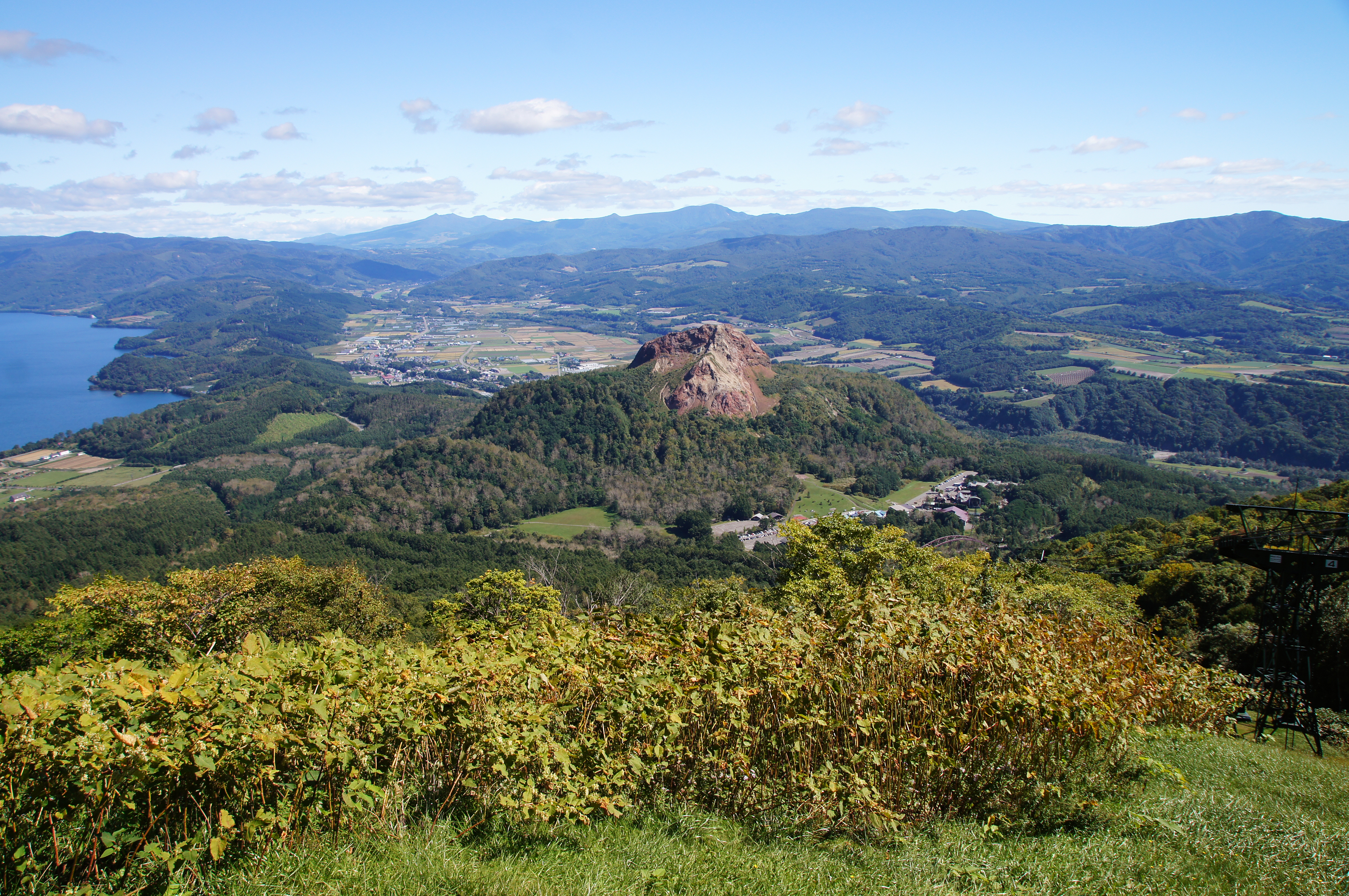 Shōwa-shinzan at Sobetsu, Hokkaido prefecture, Japan.